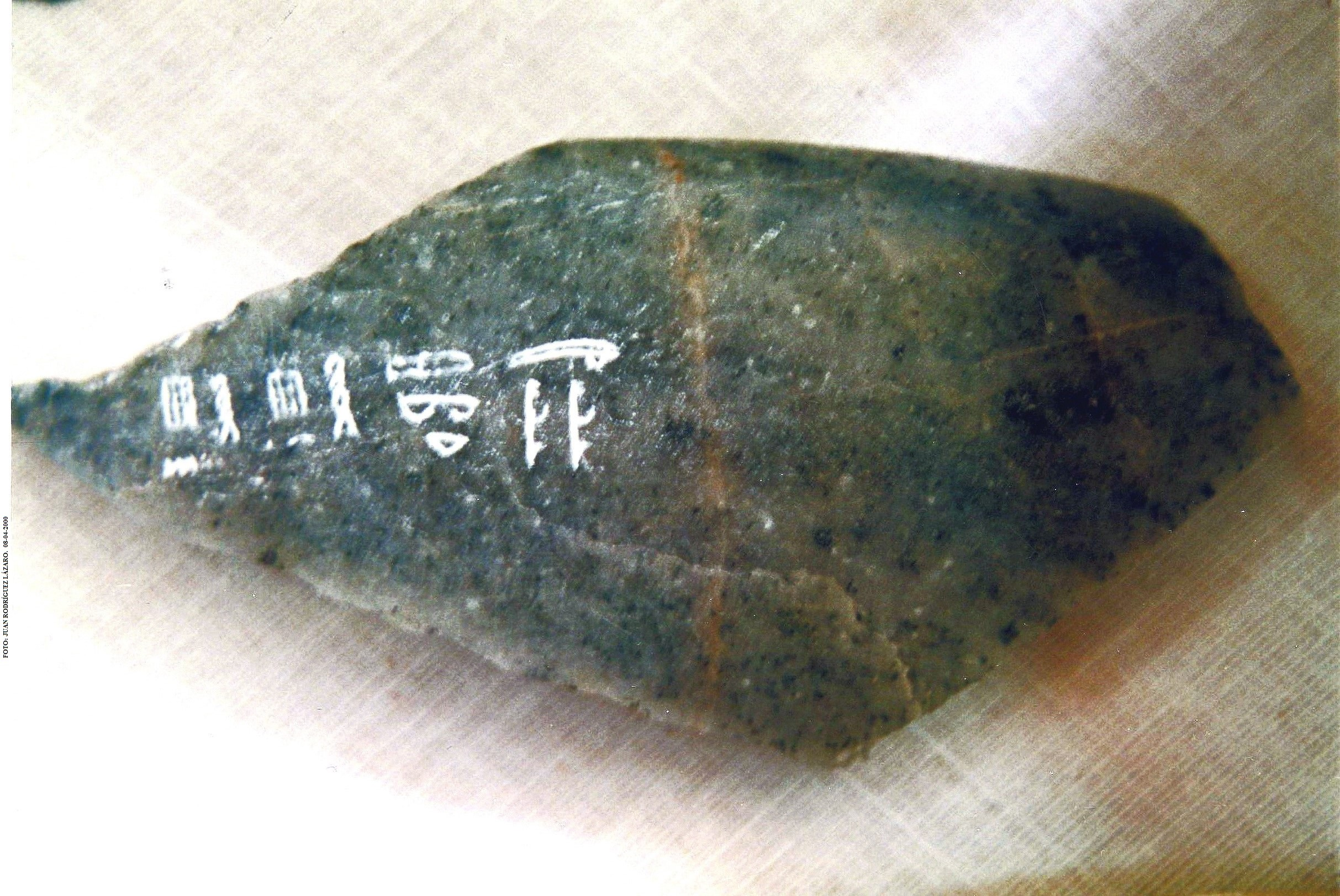 Stone bowl inscribed with the name of Ptahpehen, 2nd or 3rd Dynasty.